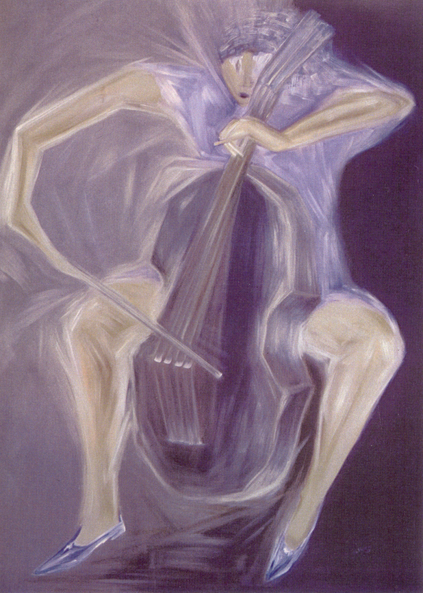 Painting of a contrabass